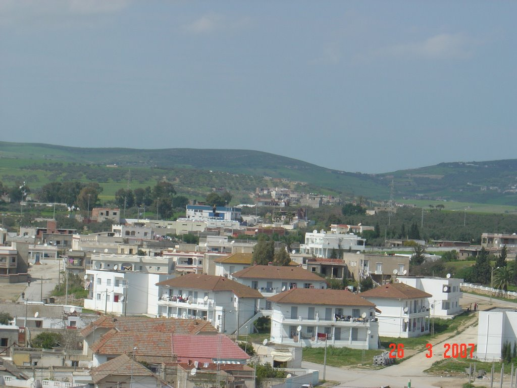 المصيدة